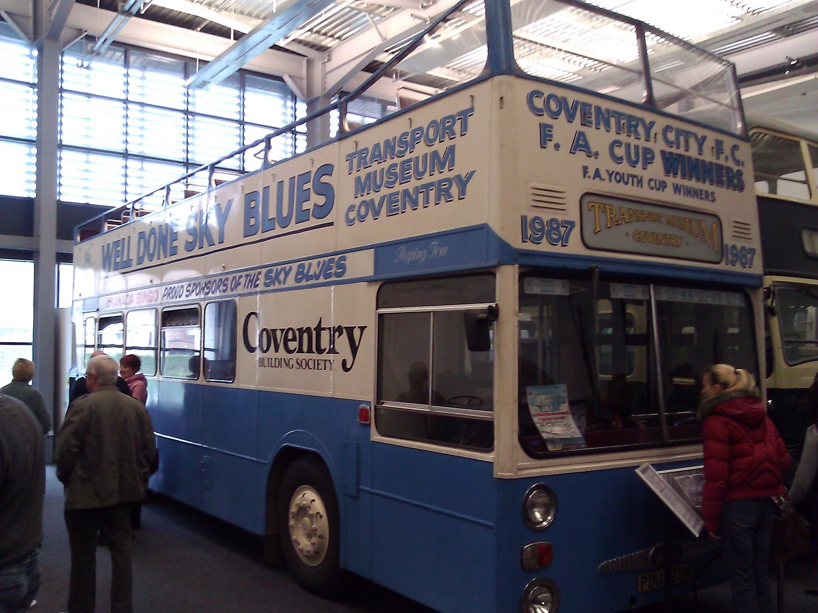 The bus upon which Coventry City F.C. performed their victory parade after the 1987 FA Cup Final. It is now on permanent display in the Coventry Transport Museum, where I took the photo yesterday.